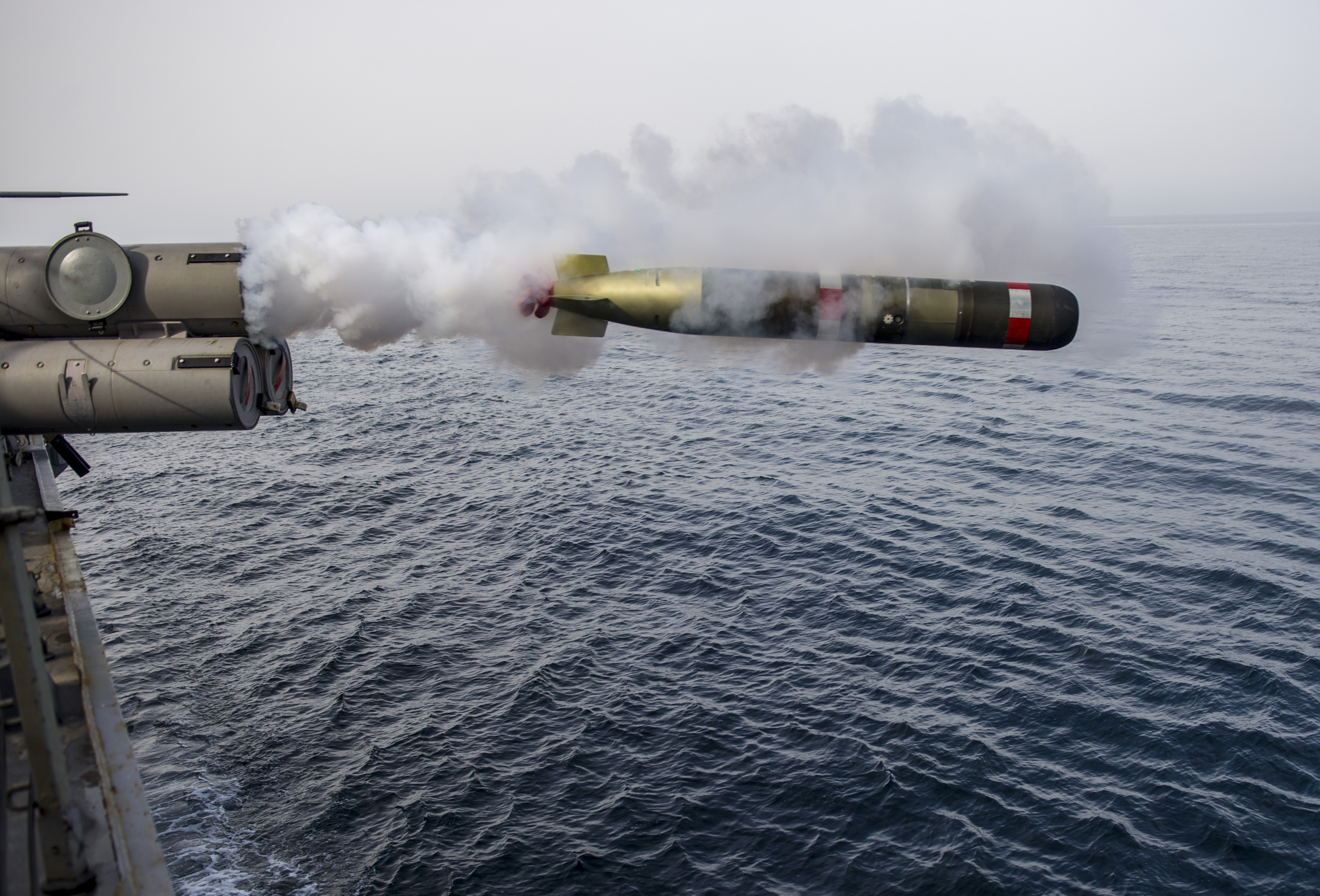 An exercise Mark 54 Mod 0 torpedo is launched from the U.S. Navy Arleigh Burke-class guided-missile destroyer USS Roosevelt (DDG-80). Roosevelt was deployed as part of the George H.W. Bush Carrier Strike Group supporting maritime security operations and theater security cooperation efforts in the U.S. 5th fleet area of responsibility.